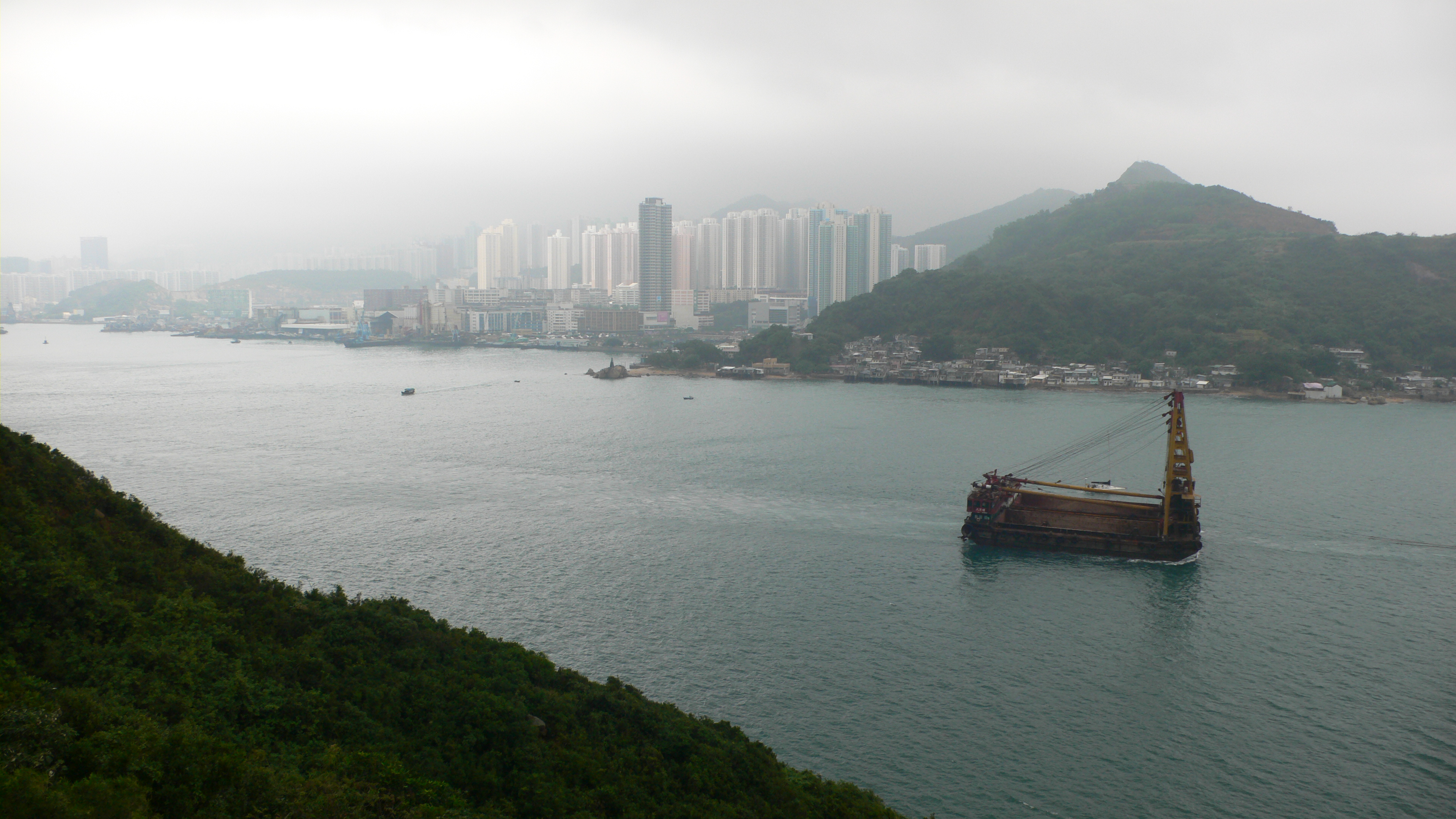 The view of Lei Yue Mun from Hong Kong Museum of Coastal Defence